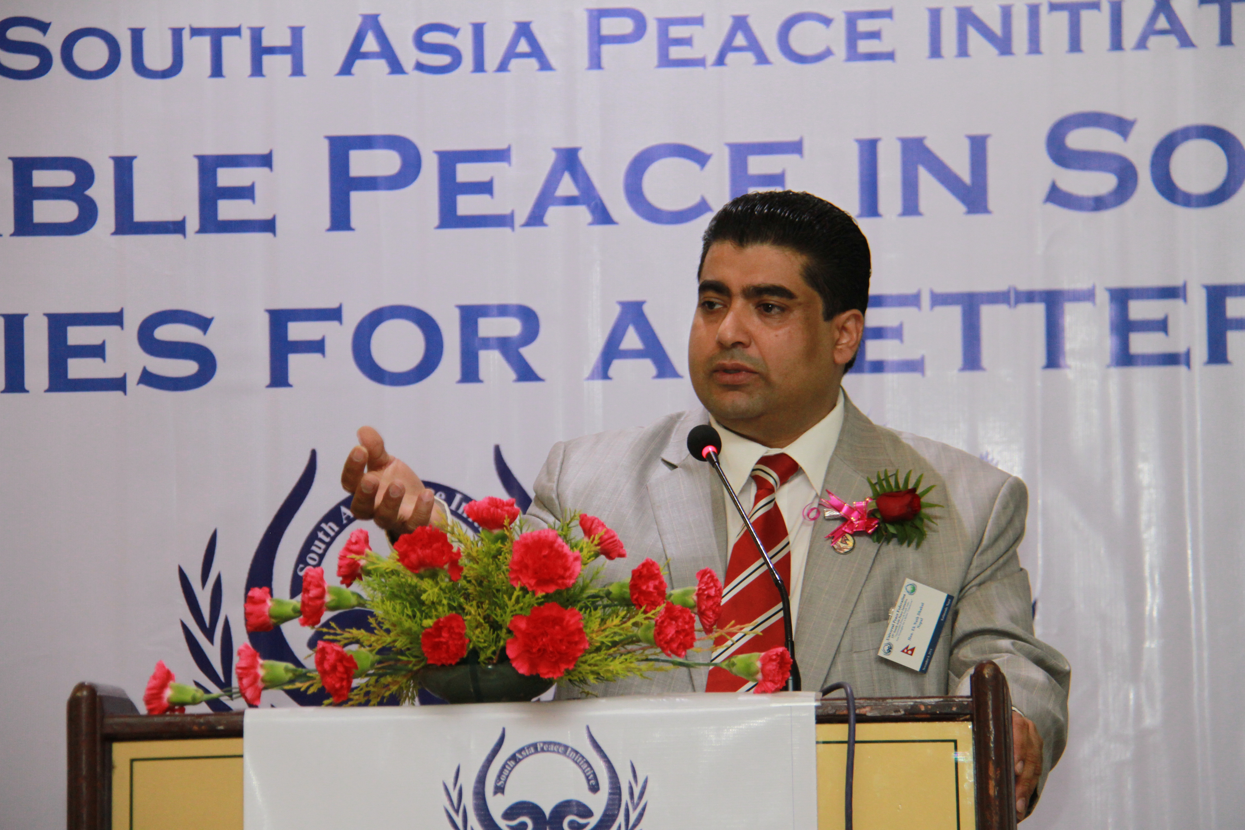 Ek Nath Dhakal speaking at 15th South Asia Peace Initiatives (SAPI) conference in Kathmandu on November 2014.नेपाली: एकनाथ ढकाल १५औ दक्षिण एसियाली शान्ति पहलकदमी सम्मेलनमा बोल्दै